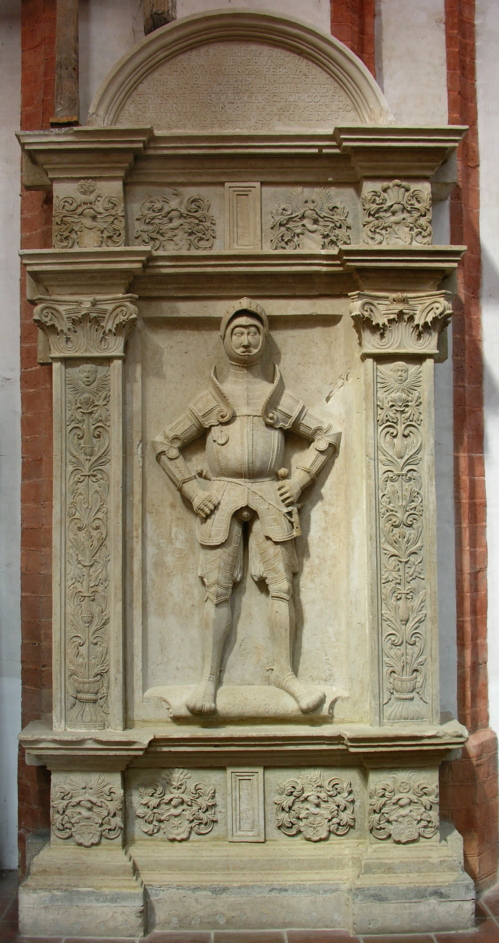 Nagrobek Ulricha Schaffgotscha (zm. 1561) w kościele św. Elżbiety (garnizonowym) we Wrocławiu